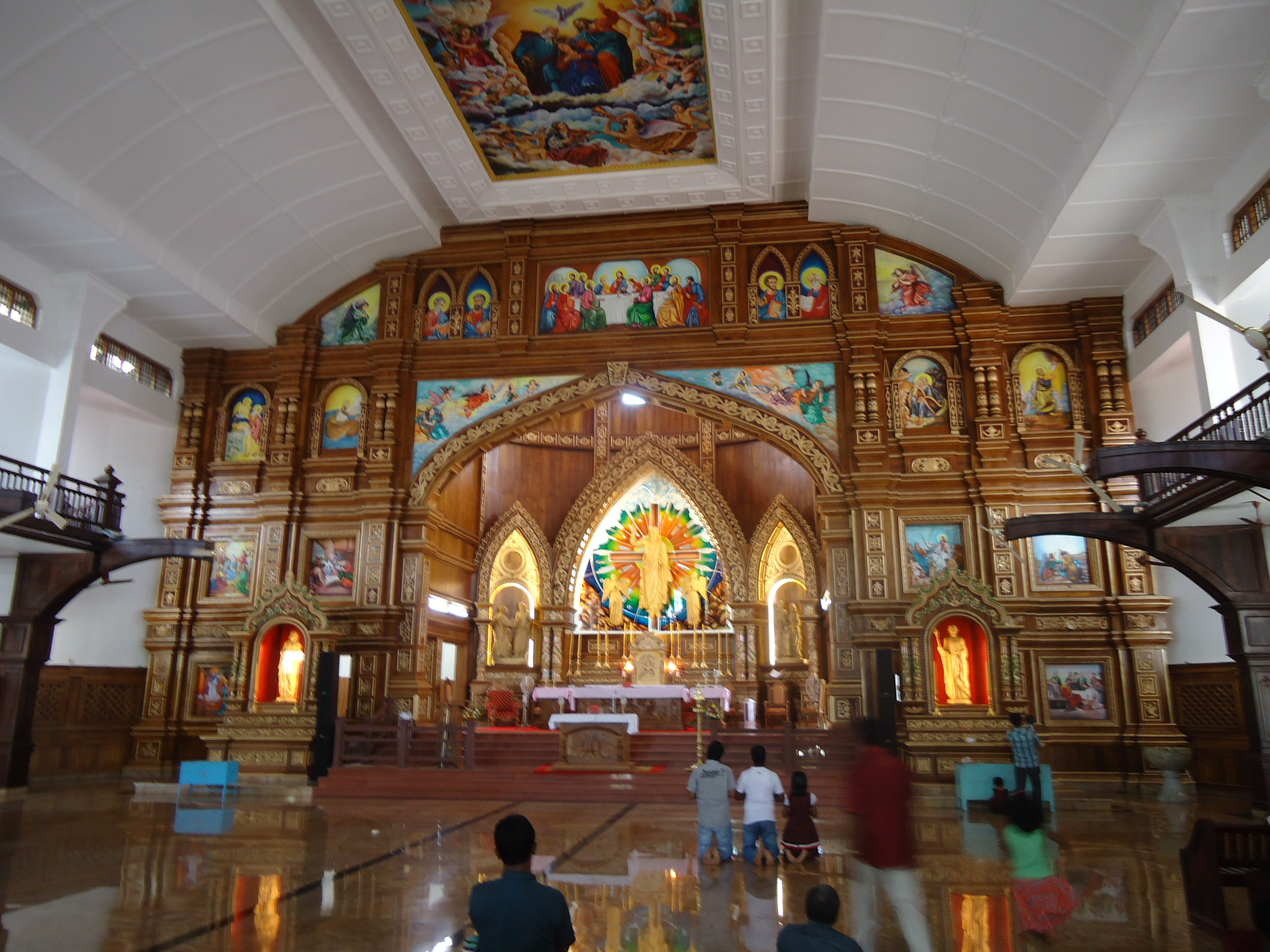 Malayattoor Church Altar